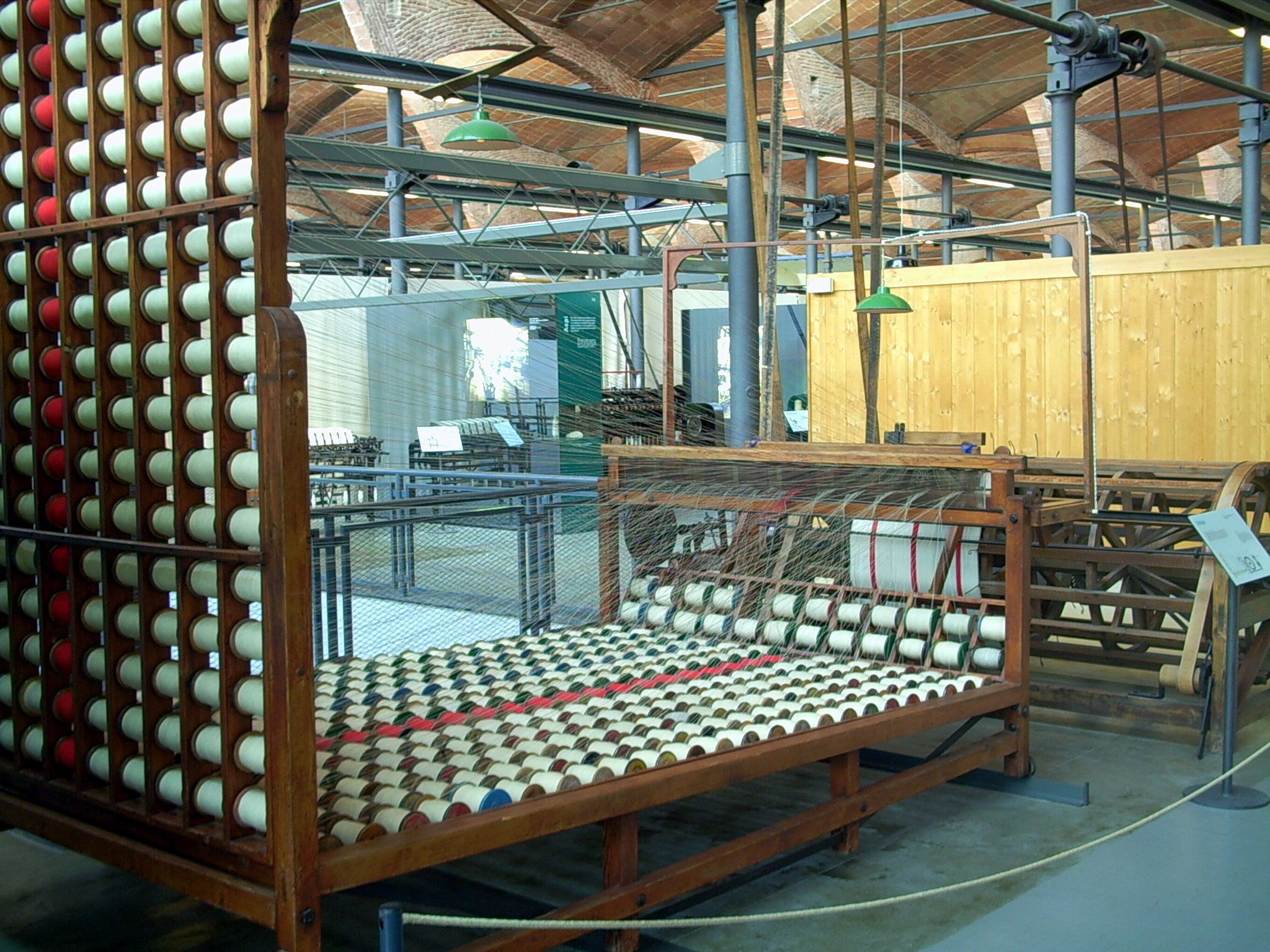 Warper, at the mNATECT, Terrassa, (Catalunya).